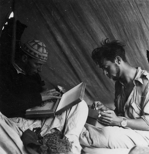 Eugenio Morales Agacino with a North African helper at Tifariti, Western Sahara, during a monitoring expedition of the desert locust (May, 1942).